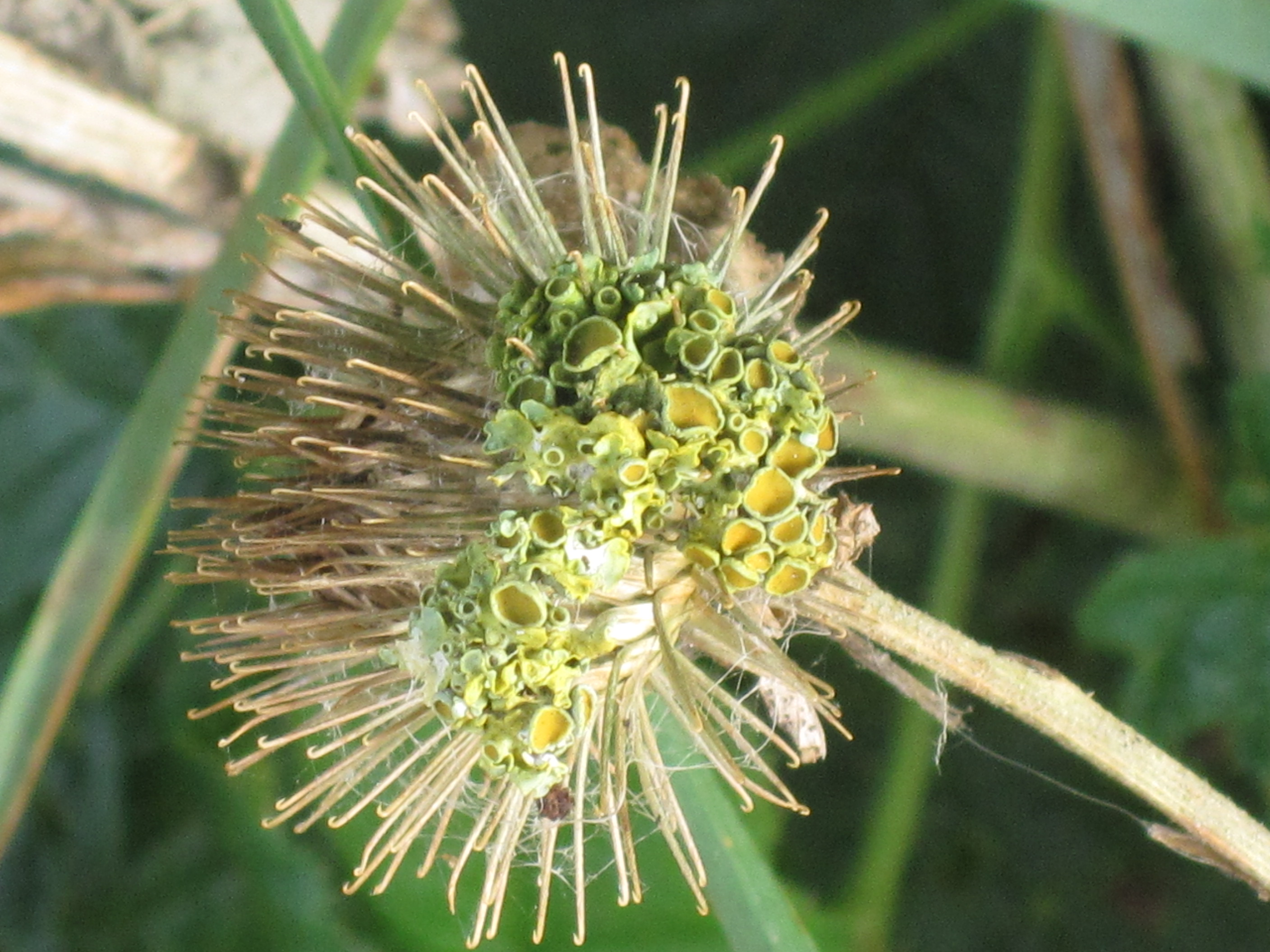 Xanthoria polycarpa (Pin-cushion sunburst lichen) on Arctium sp. (Burdock), Westenschouwen, the Netherlands